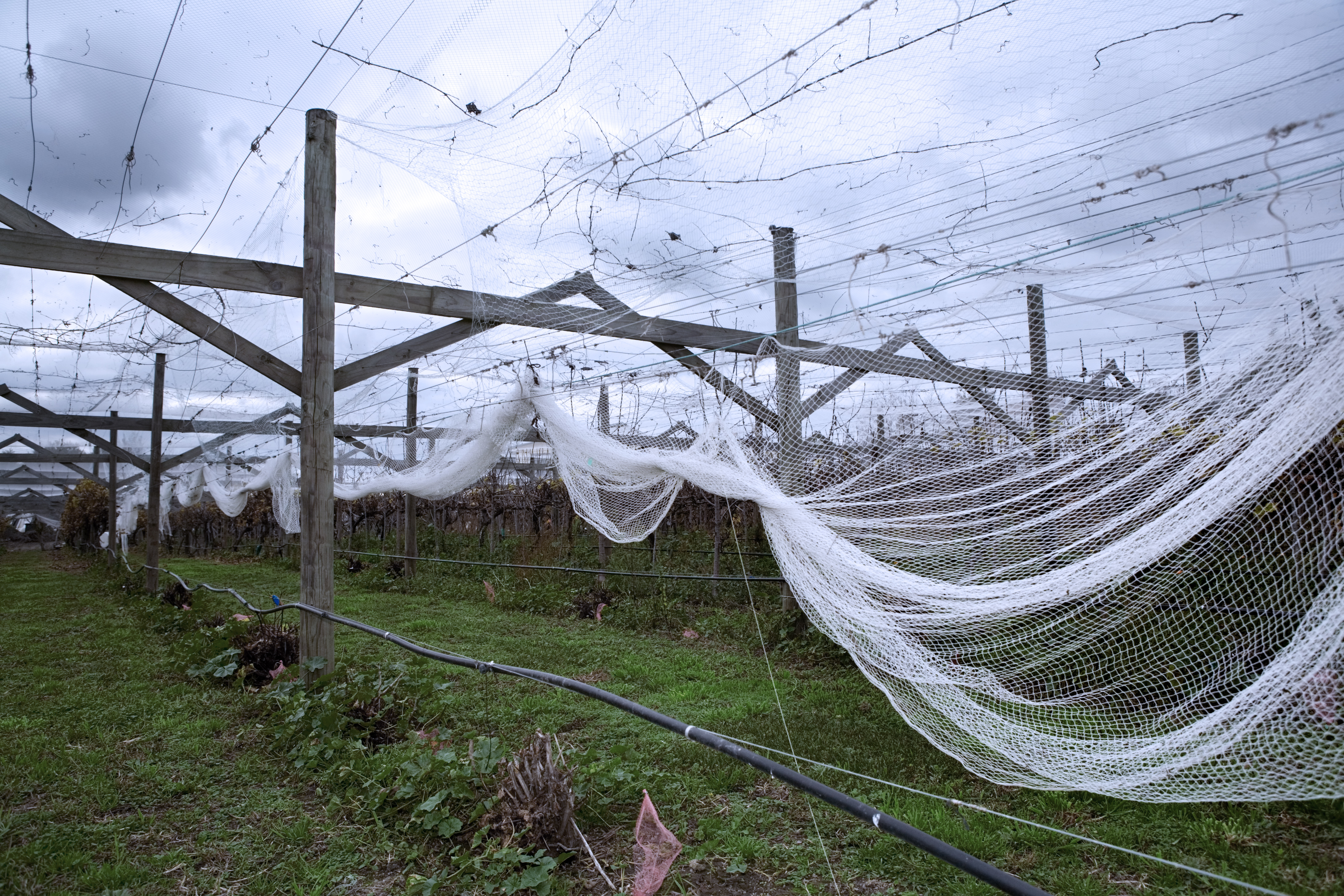 Vineyard covered with a net. New Zealand, 2006